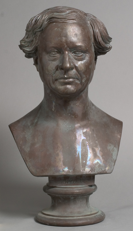 H.W. Bissen (1798-1868), Arkitekt Joergen Hansen Koch, 1835